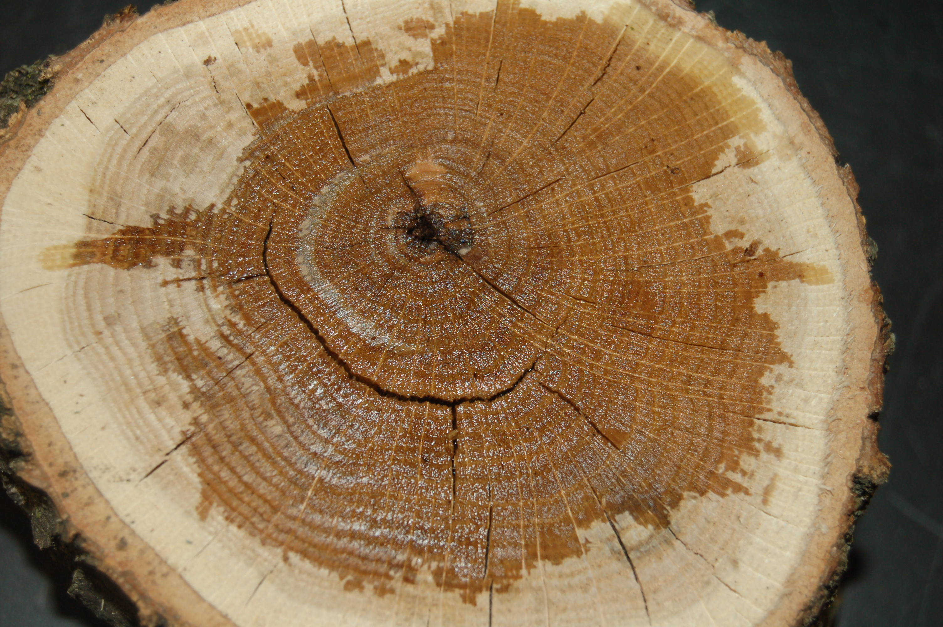 A young red oak (Quercus rubra) cross-section with decay.